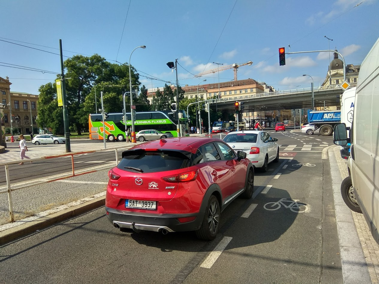 Shared bike lane, Prague, Florenc